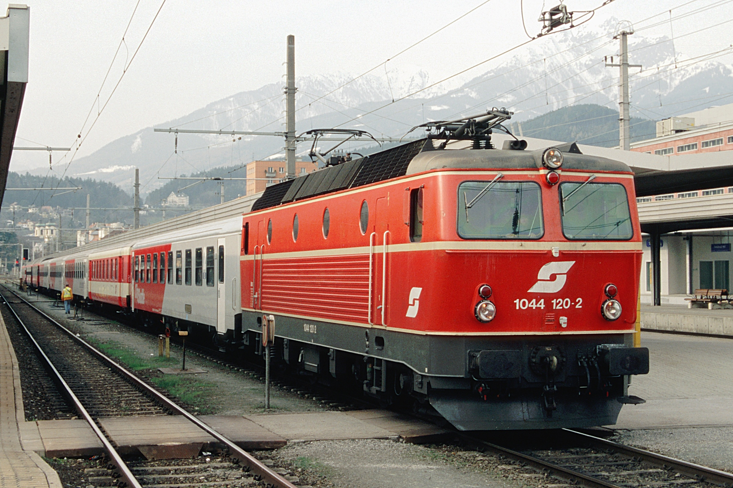 Train with ÖBB 1044 120-2 at Innsbruck Hauptbahnhof